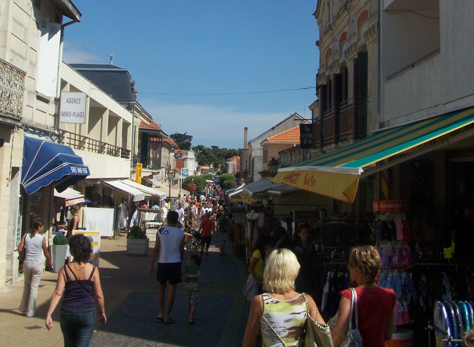 Sight on the major commercial street of the French commune of Soulac sur Mer in Gironde.